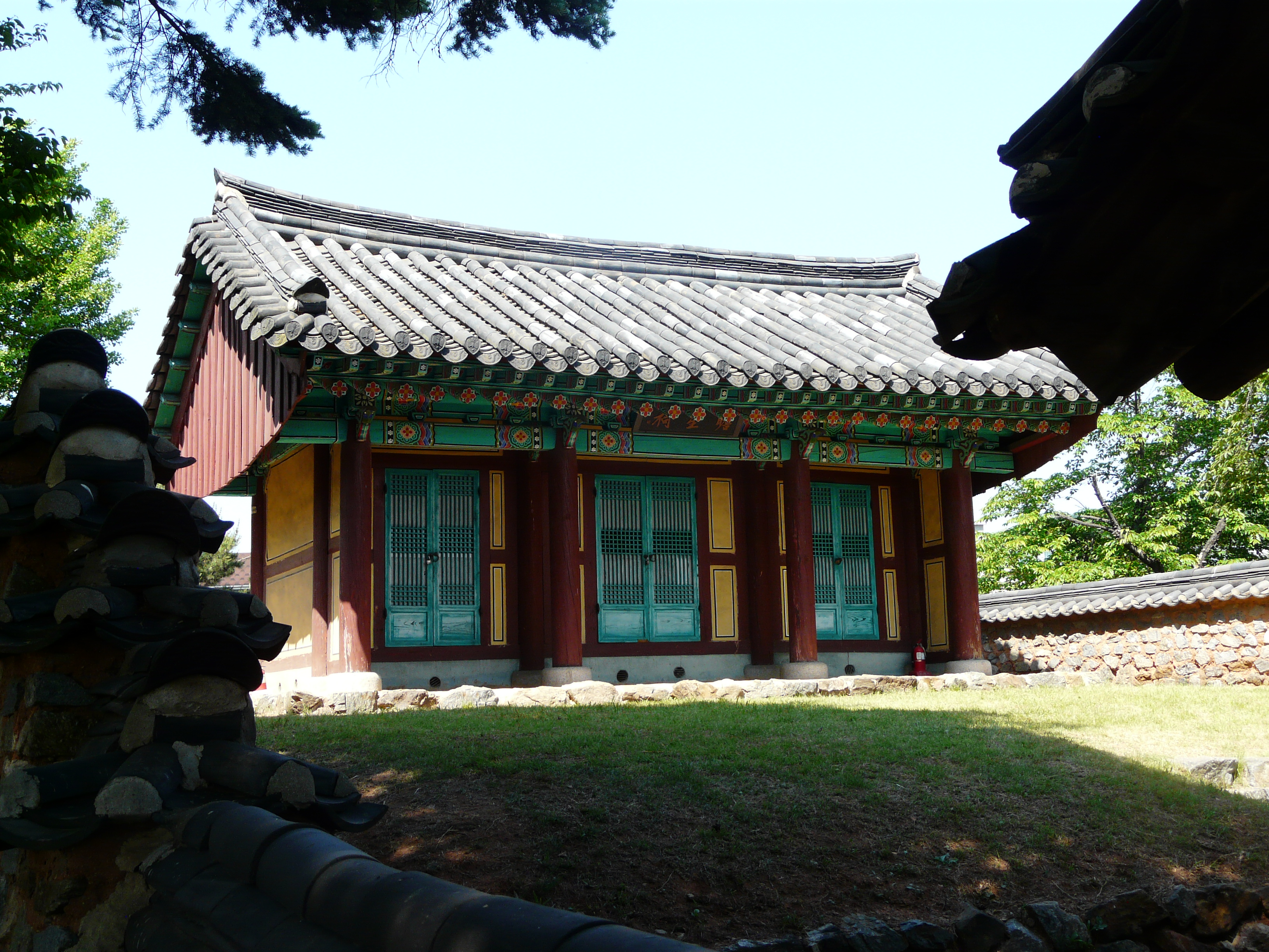 Tomb of Yi Ik